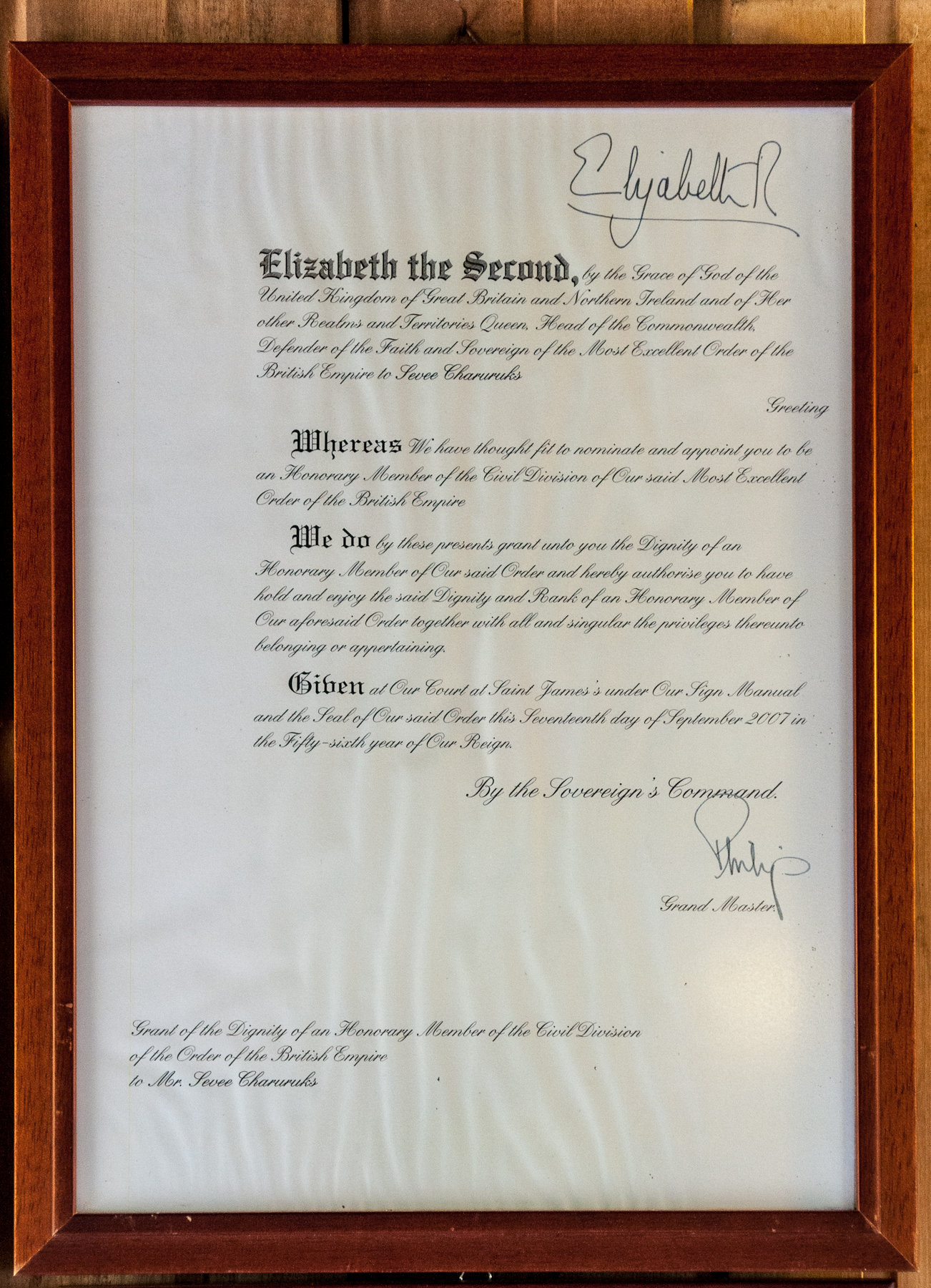 Kundasang, Sabah: The Kundasang War Memorial and Gardens; Sevee Charuruks's Cerificate of Appointment to MBE